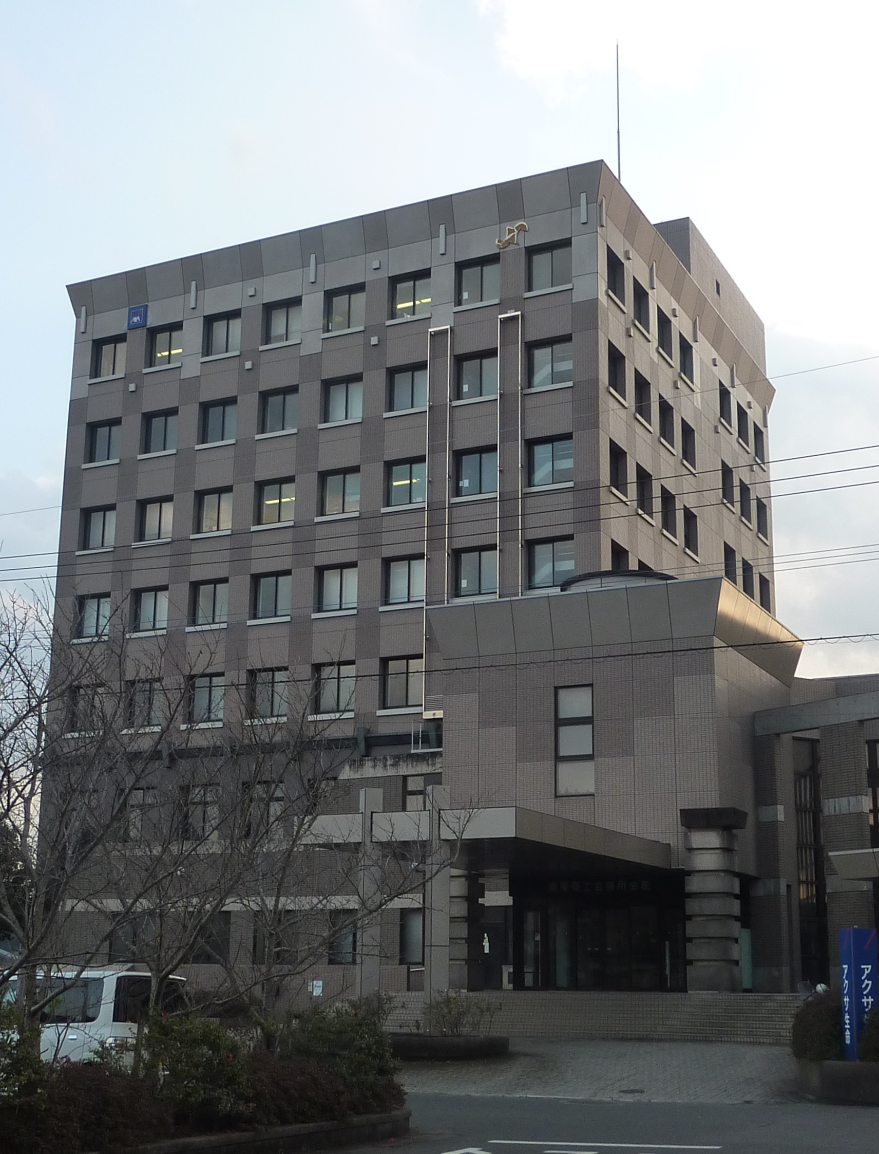 Kanoya Chambers of commerce and Industry (Shinkawa-cho, Kanoya City, Kagoshima, Japan)